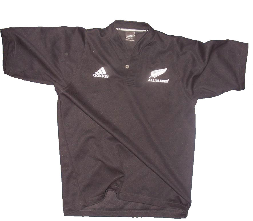 The New Zealand All Blacks home jersey - international rugby union.